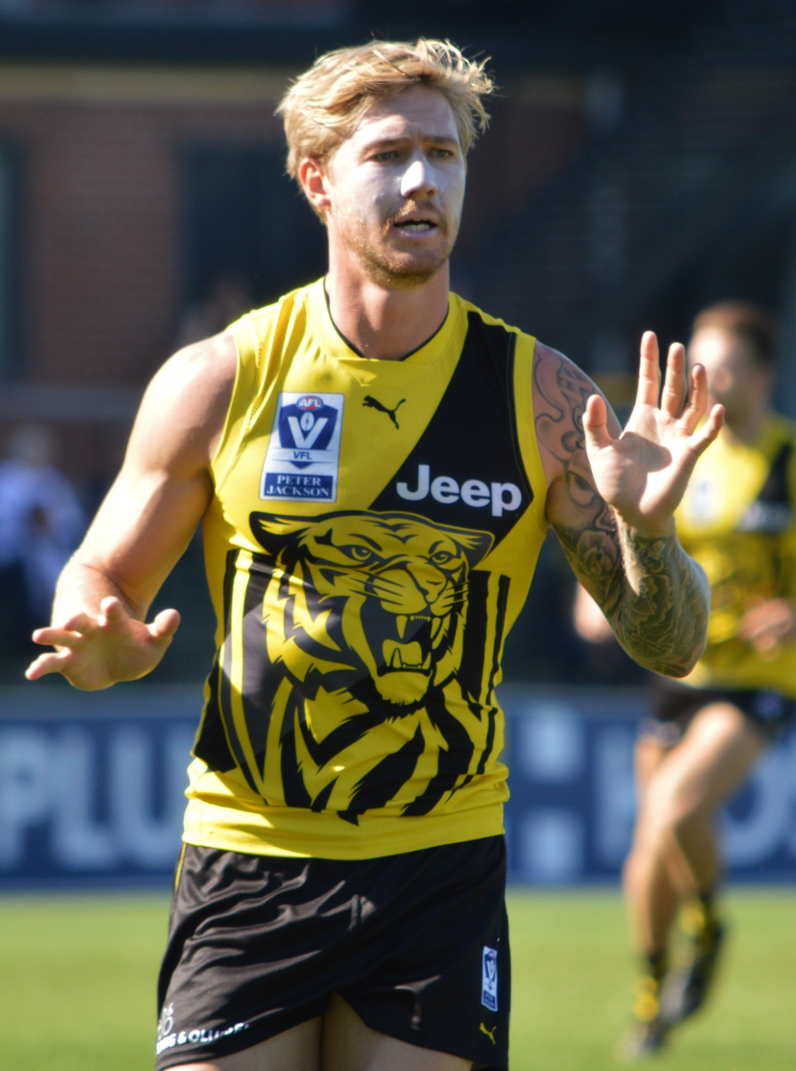 Nathan Broad with Richmond during a VFL practice match against the Northern Blues in March 2018